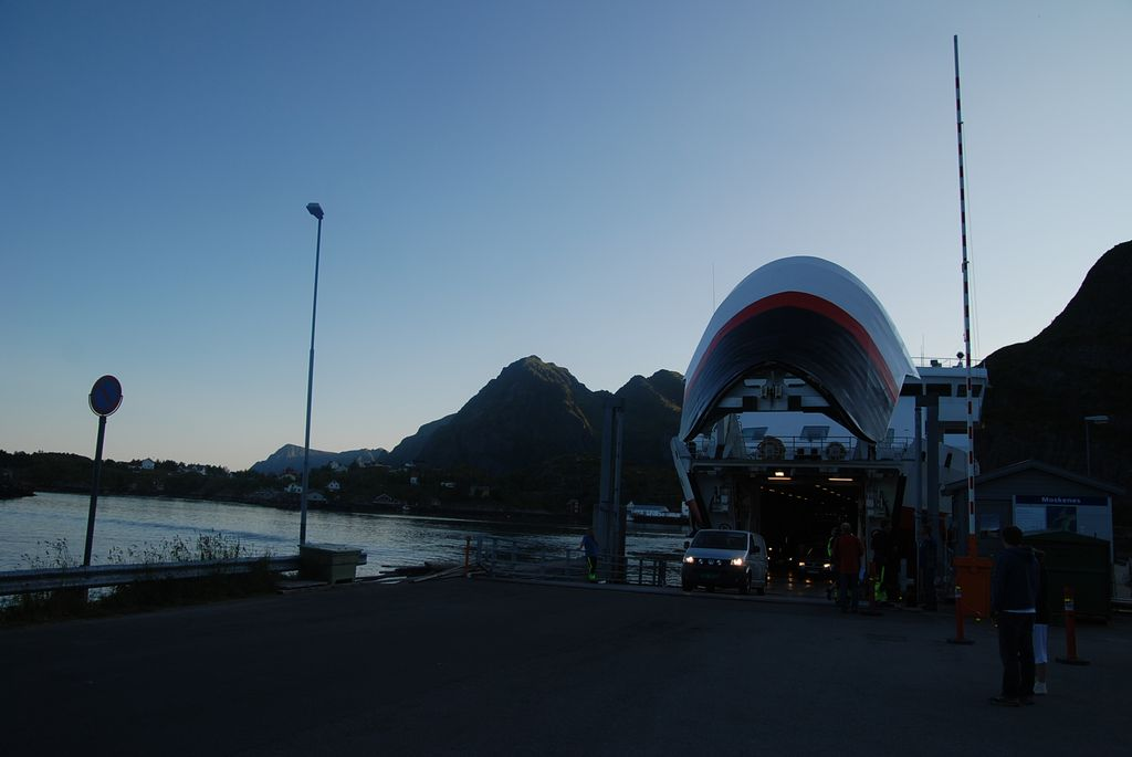 Moskenes ferry terminal, Norway